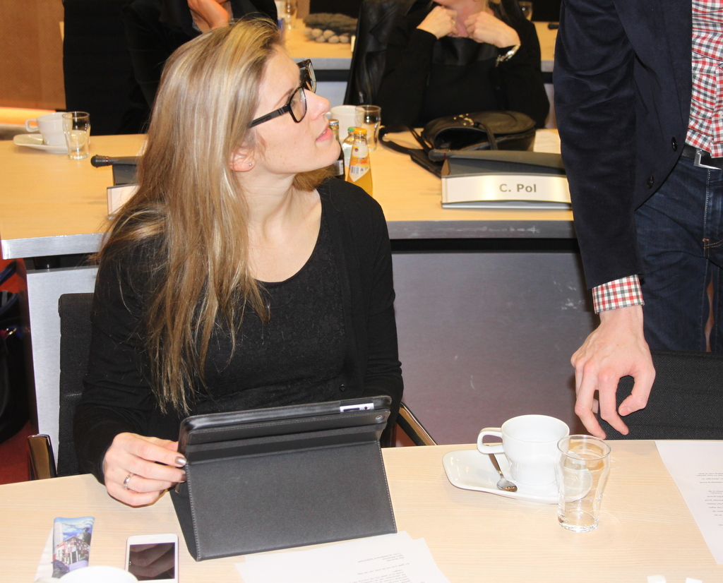 Madelon Gravesteijn Baans sportwoman Member of the Municipal Council Spijkenisse